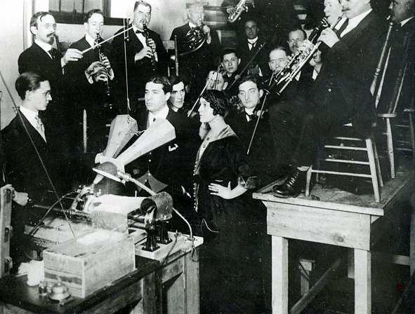 The tenor Lucien Muratore and the soprano Lina Cavalieri recording acoustically with an orchestra in Paris